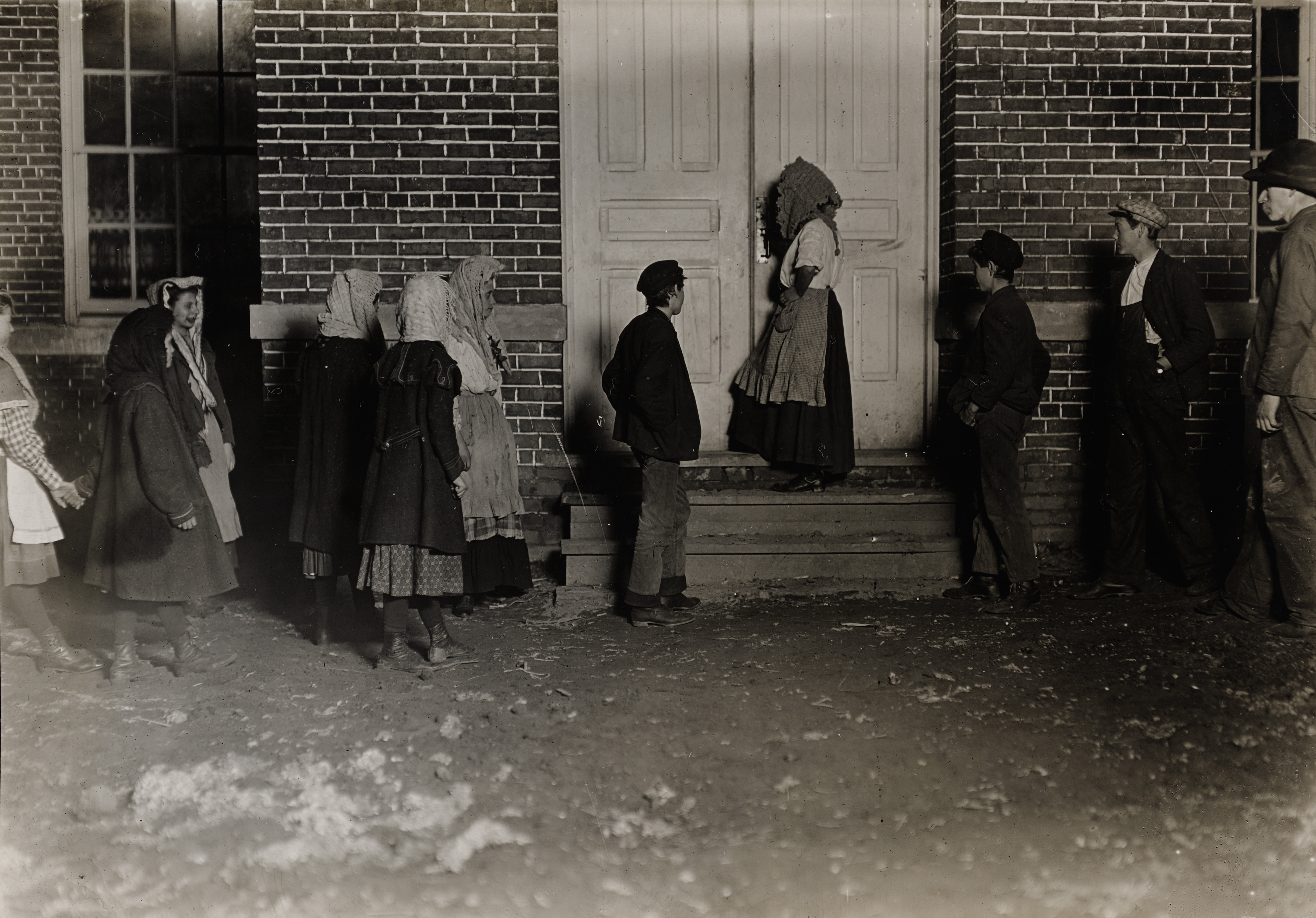 Photographer: Hine, Lewis Wickes Flashlight photo of children on night shift going to work at 6 PM on a cold dark December night. Work shift lasts all night, 12 hours. They do not come out again until 6:00 AM Child workers on their way to a night shift at Whitnel Cottton Mills. North Carolina, USA 1908. NMFF.003473